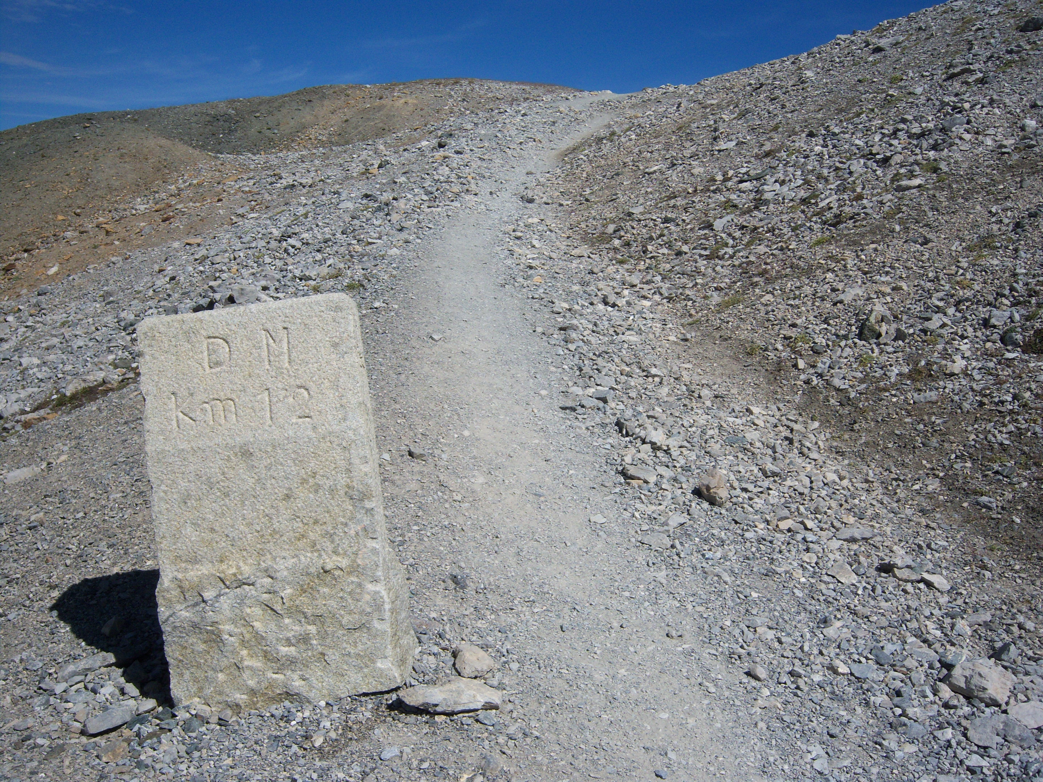 The 12 km stone in Chaberton Road and the narrow road today